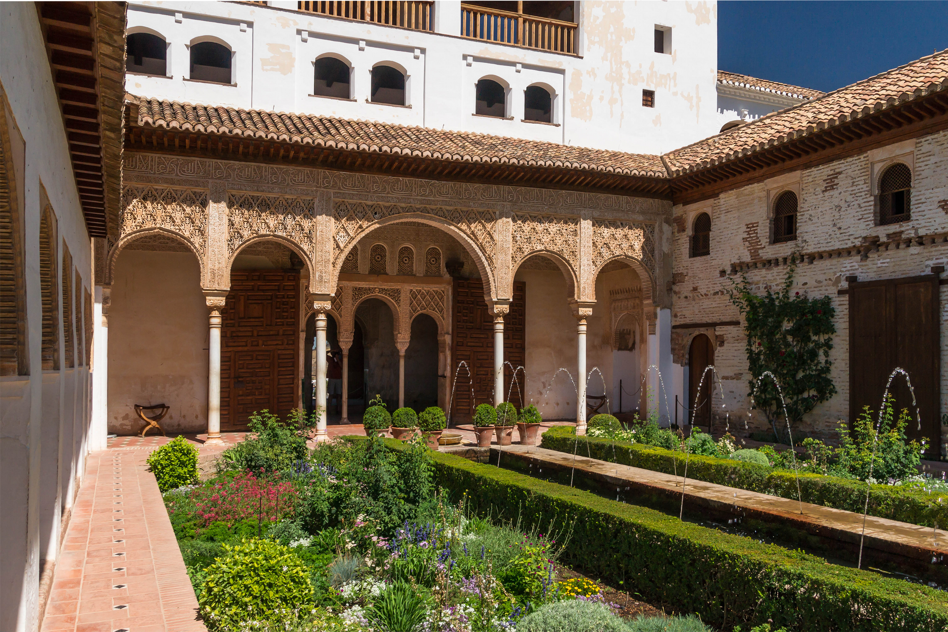 Patio de la Acequia (patio of the Channel), detail, Generalife, Granada, Spain.